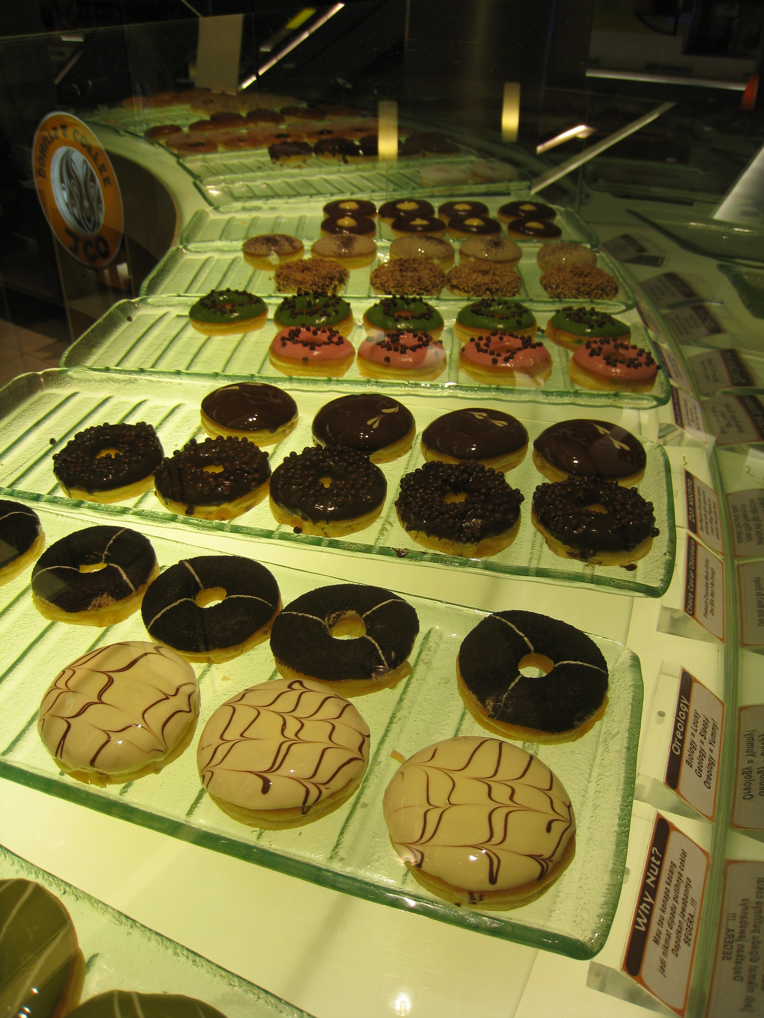 Donuts, J.CO Donuts, Jakarta.